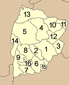 Map of Chaiyaphum province, Thailand, with the Amphoe numbered Mueang Chaiyaphum (อำเภอเมืองชัยภูมิ) Ban Khwao (อำเภอบ้านเขว้า) Khon Sawan (อำเภอคอนสวรรค์) Kaset Sombun (อำเภอเกษตรสมบูรณ์) Nong Bua Daeng (อำเภอหนองบัวแดง) Chatturat (อำเภอจัตุรัส) Bamnet Narong (อำเภอบำเหน็จณรงค์) Nong Bua Rawe (อำเภอหนองบัวระเหว) Thep Sathit (อำเภอเทพสถิต) Phu Khiao (อำเภอภูเขียว) Ban Thaen (อำเภอบ้านแท่น) Kaeng Khro (อำเภอแก้งคร้อ) Khon San (อำเภอคอนสาร) Phakdi Chumphon (อำเภอภักดีชุมพล) Noen Sa-nga (อำเภอเนินสง่า) Sap Yai (sub-district) (กิ่งอำเภอซับใหญ่)